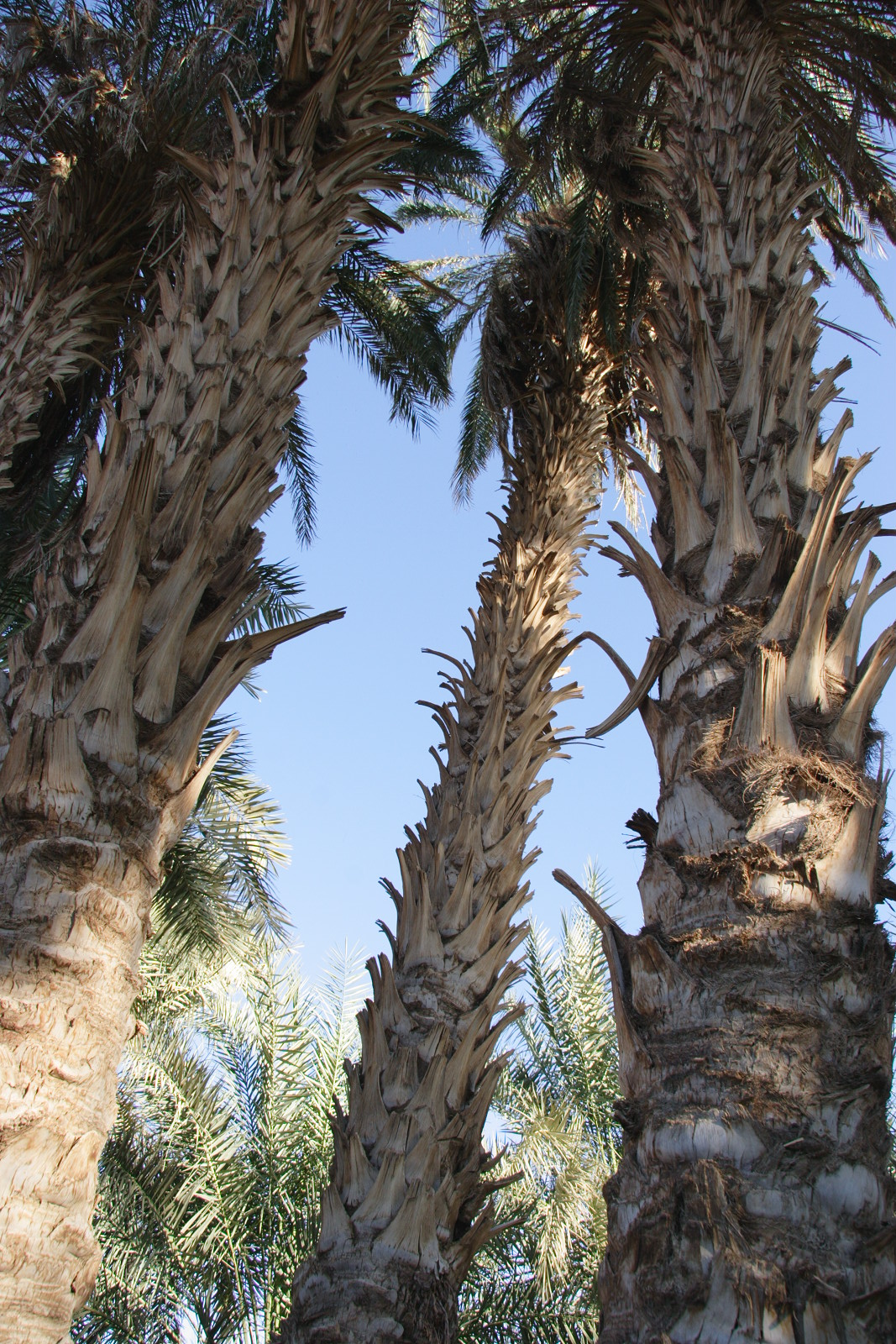 Barakawi date palm trees (Phoenix dactylifera) - (بركاوي) on Sherari Island in Dar al-Manasir, Northern Sudan. Date cultivation in Dar al-Manasir.